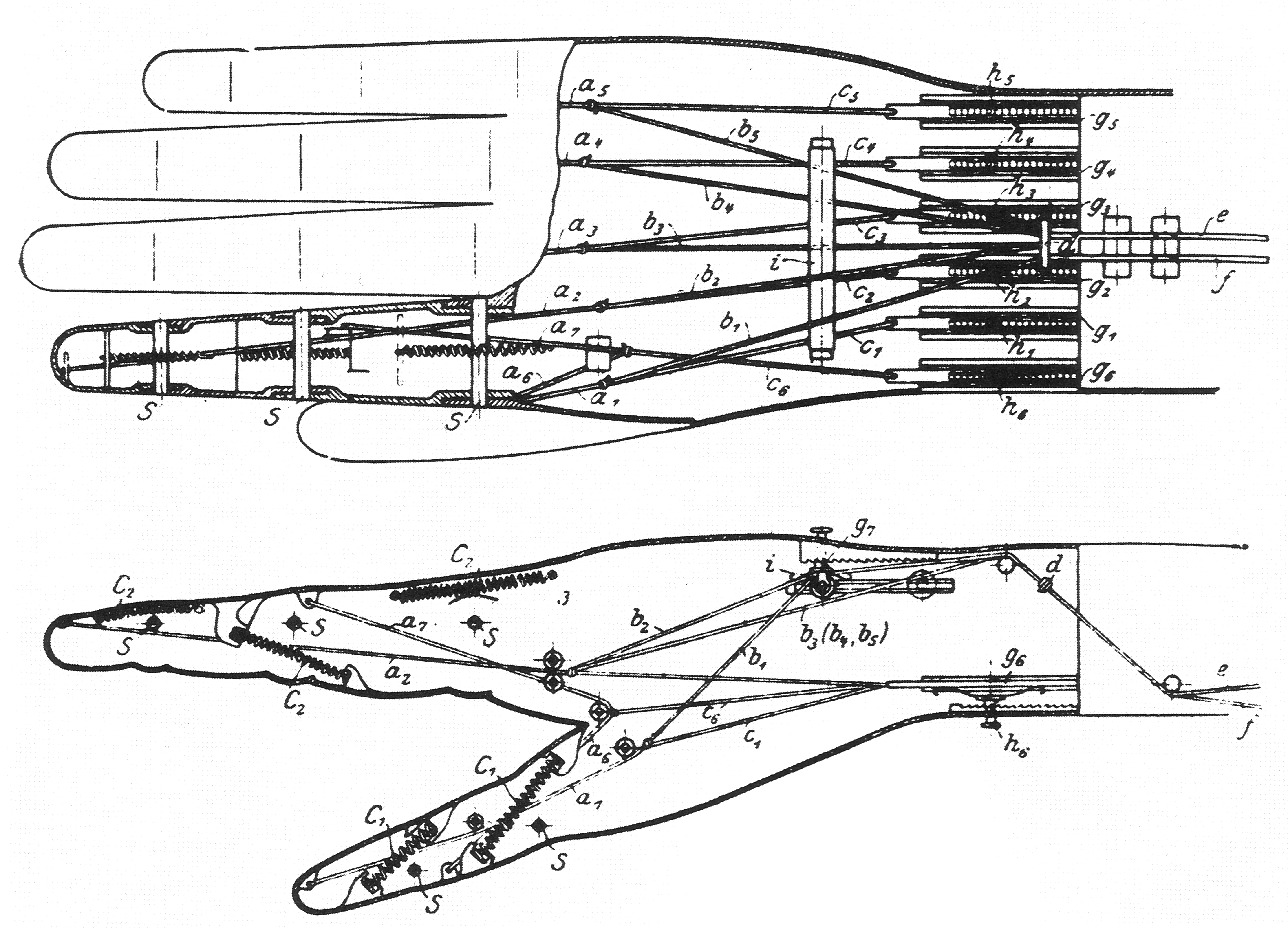 First usable body-powered artificial hand, developed by Margarethe Caroline Eichler of Berlin (Prussia), patented in 1836.